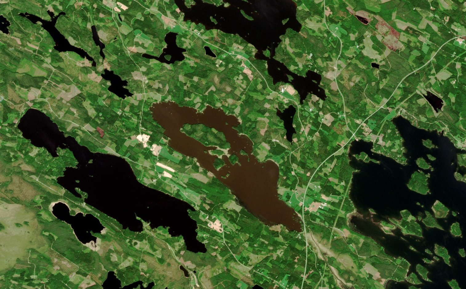 The isle Kokkosaari in Lake Kuonanjärvi in Savonlinna, Finland, is regarded as the largest island in a lake on an island in a lake in the world. Kuonanjärvi itself is located in Sääminginsalo, which is the largest island in Finland's continental area. Date: 2020-06-13 Sensor: MSI on Sentinel-2B Resolution: 10 m RGB Composites: True color, Band 4-3-2